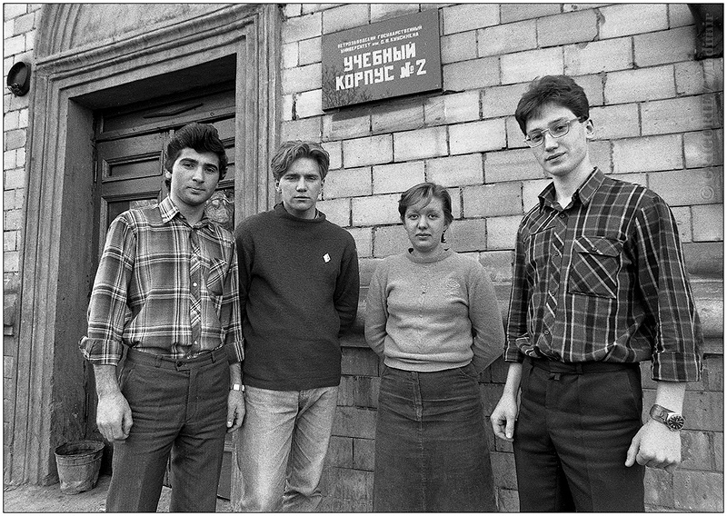 Students near the entrance to the University academic building №2, economic faculty.